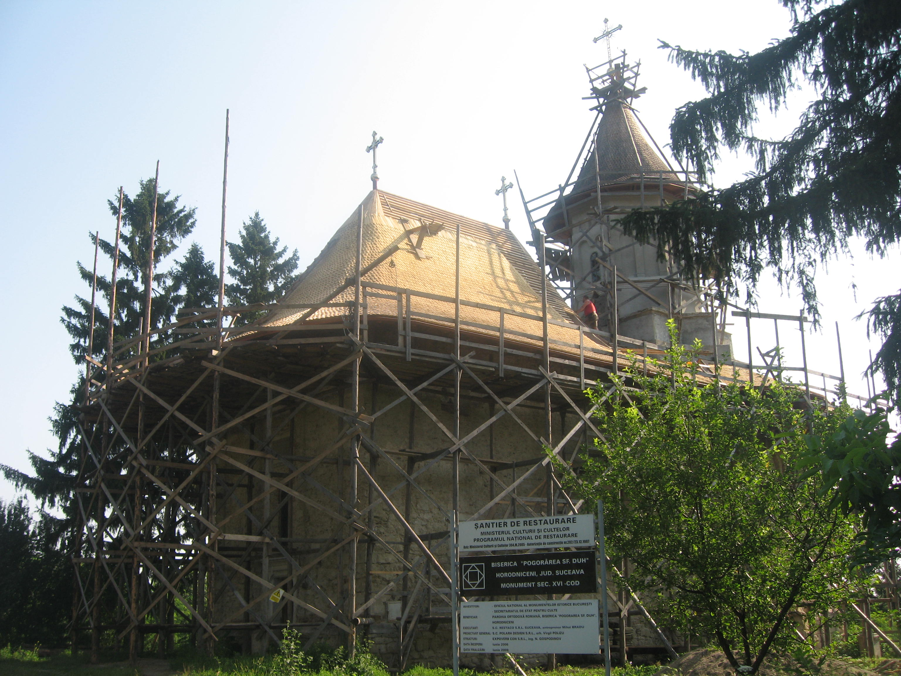 Biserica Pogorarea Sf. Duh din Horodniceni, 1539